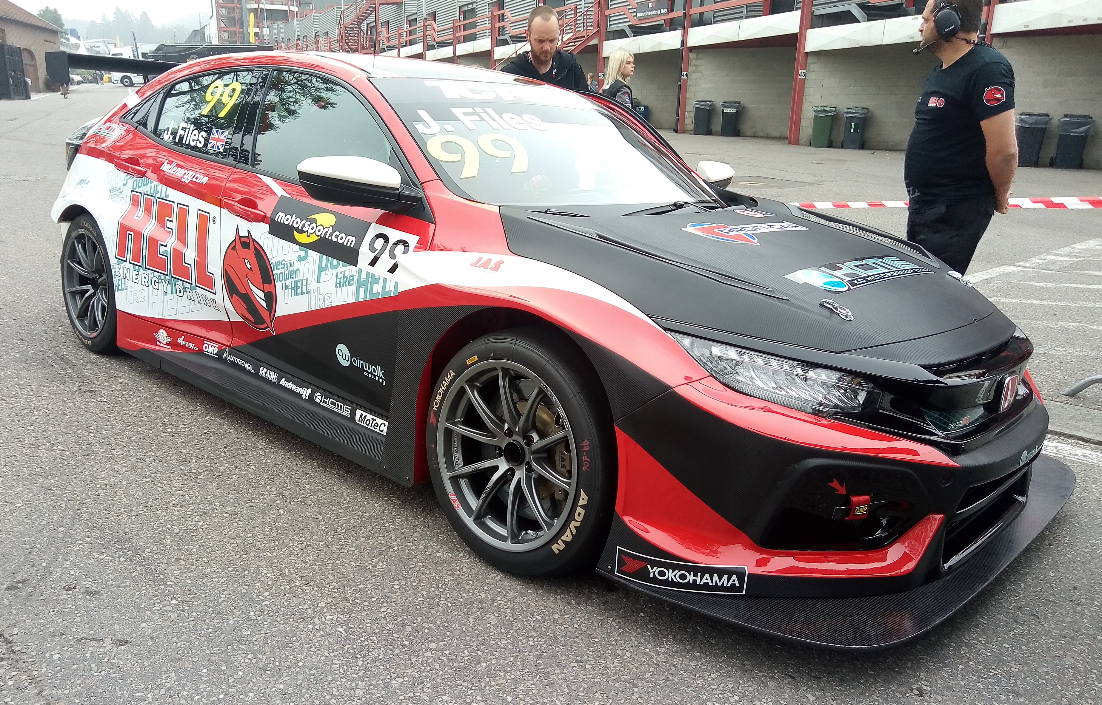 Josh Files (Hell Energy Racing with KCMG) at the 2018 TCR Europe Series round at Spa-Francorchamps.